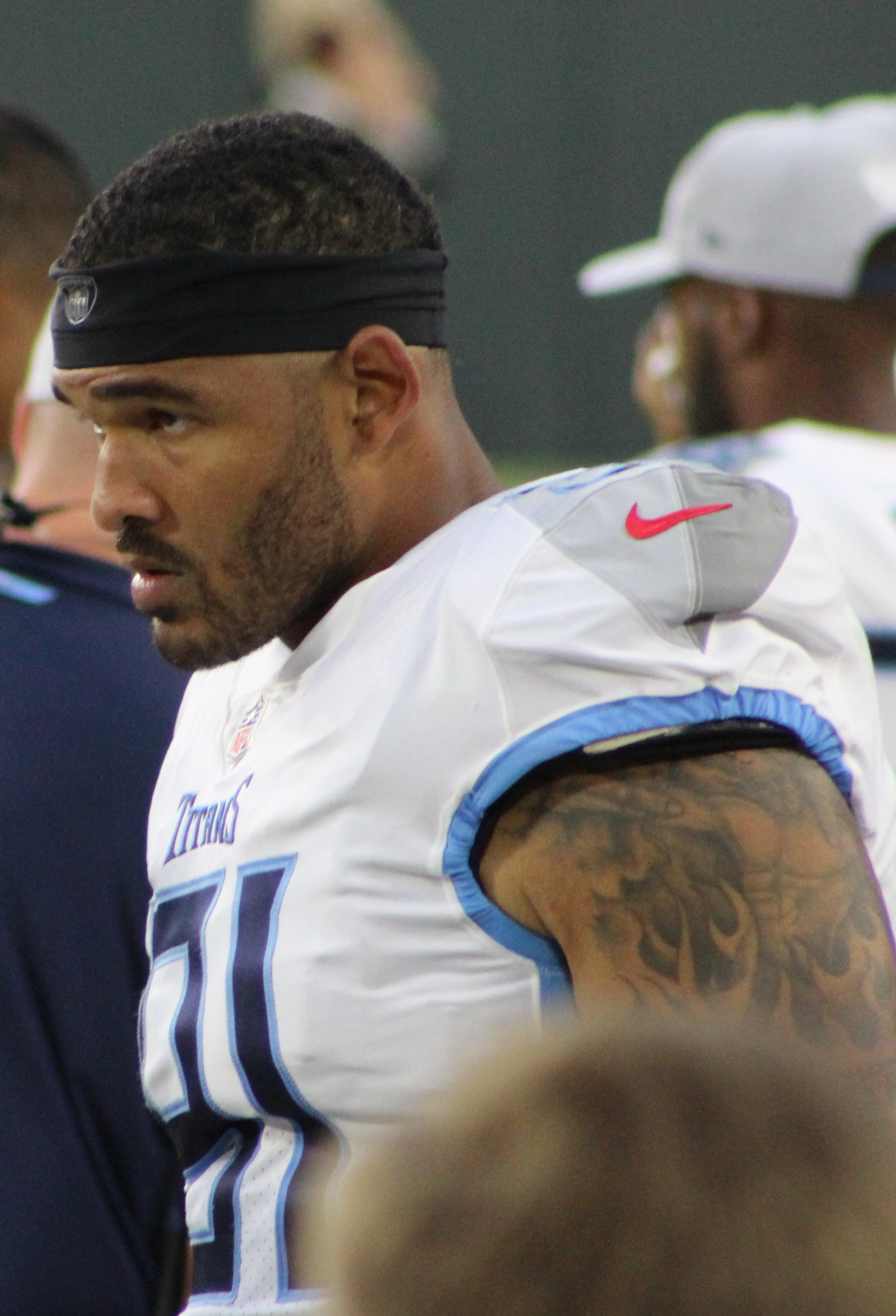 Derrick Morgan, Tennessee Titans at Green Bay Packers (Preseason), August 9, 2018